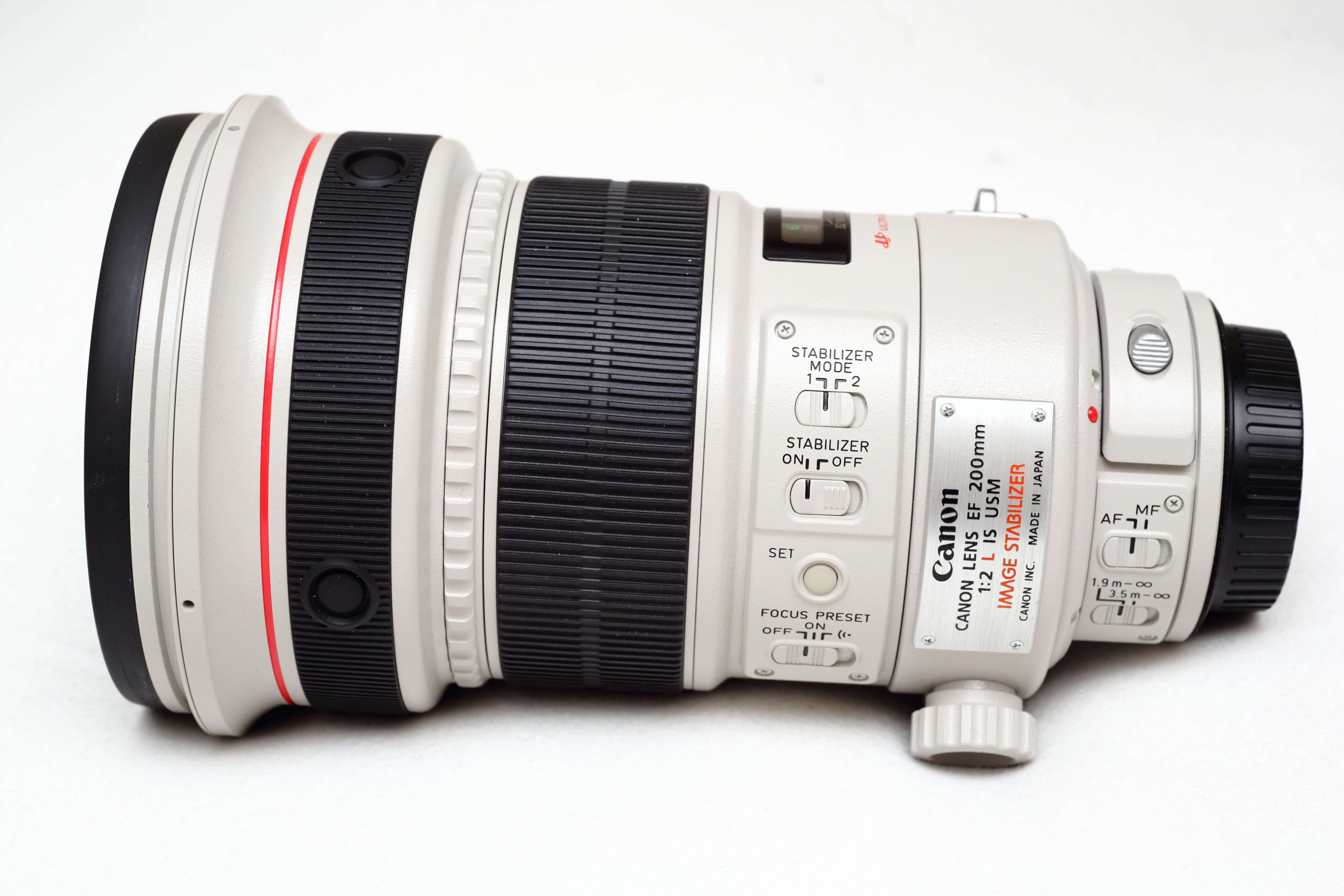 Canon EF 200mm f/2 L IS USM telephoto lens.